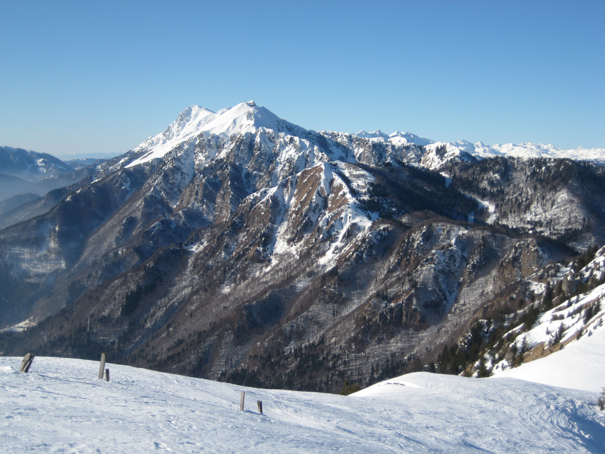 Črna prst, mountain in Slovenia. View from Sorica.